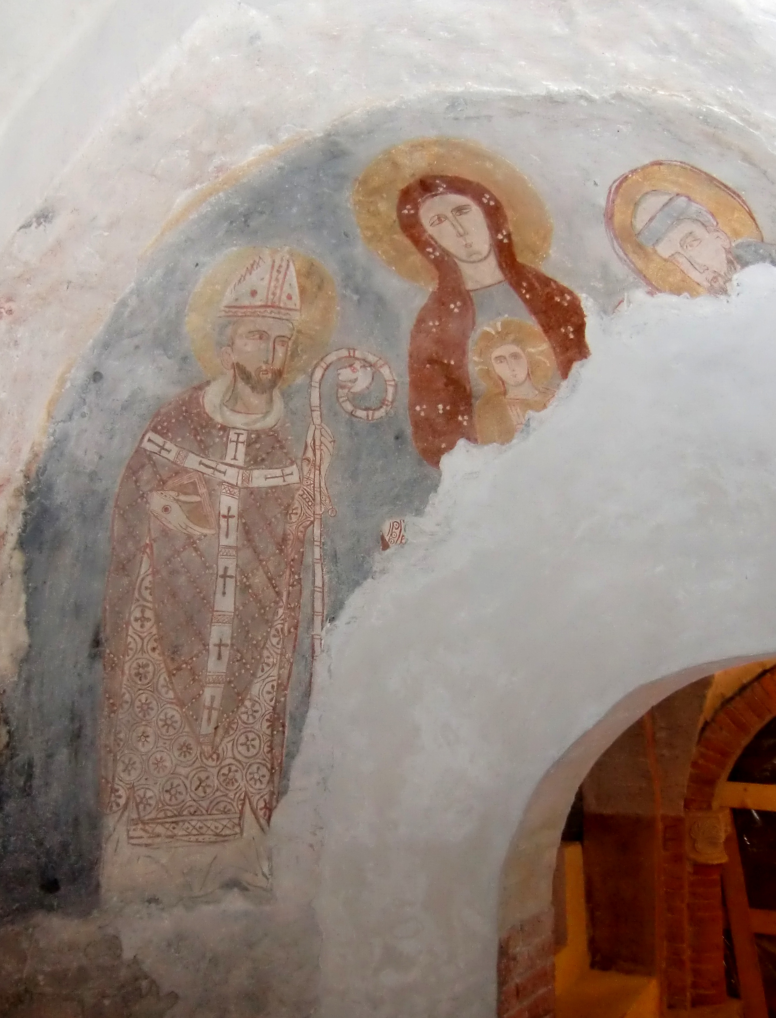 Ivrea, Cathedral, Madonna and Child with a holy bishop and a saint monk, end of the XIII century (?)